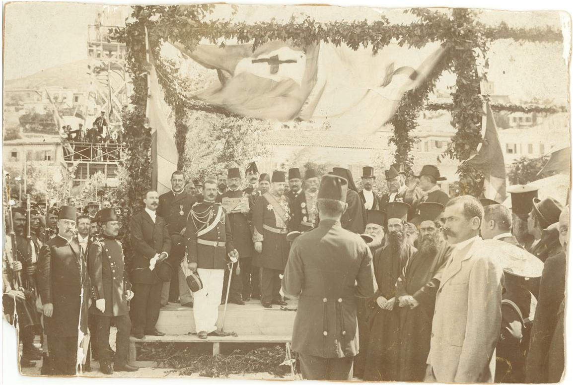 Oath of office of Stephanos Mousouros as Prince of Samos, July 1896